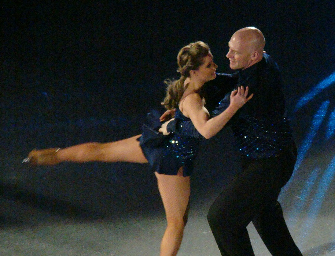 Jodeyne Higgins and Sean Rice on the Dancing on Ice tour in Manchester M.E.N Arena 1.30pm Sunday 1st May 2011.